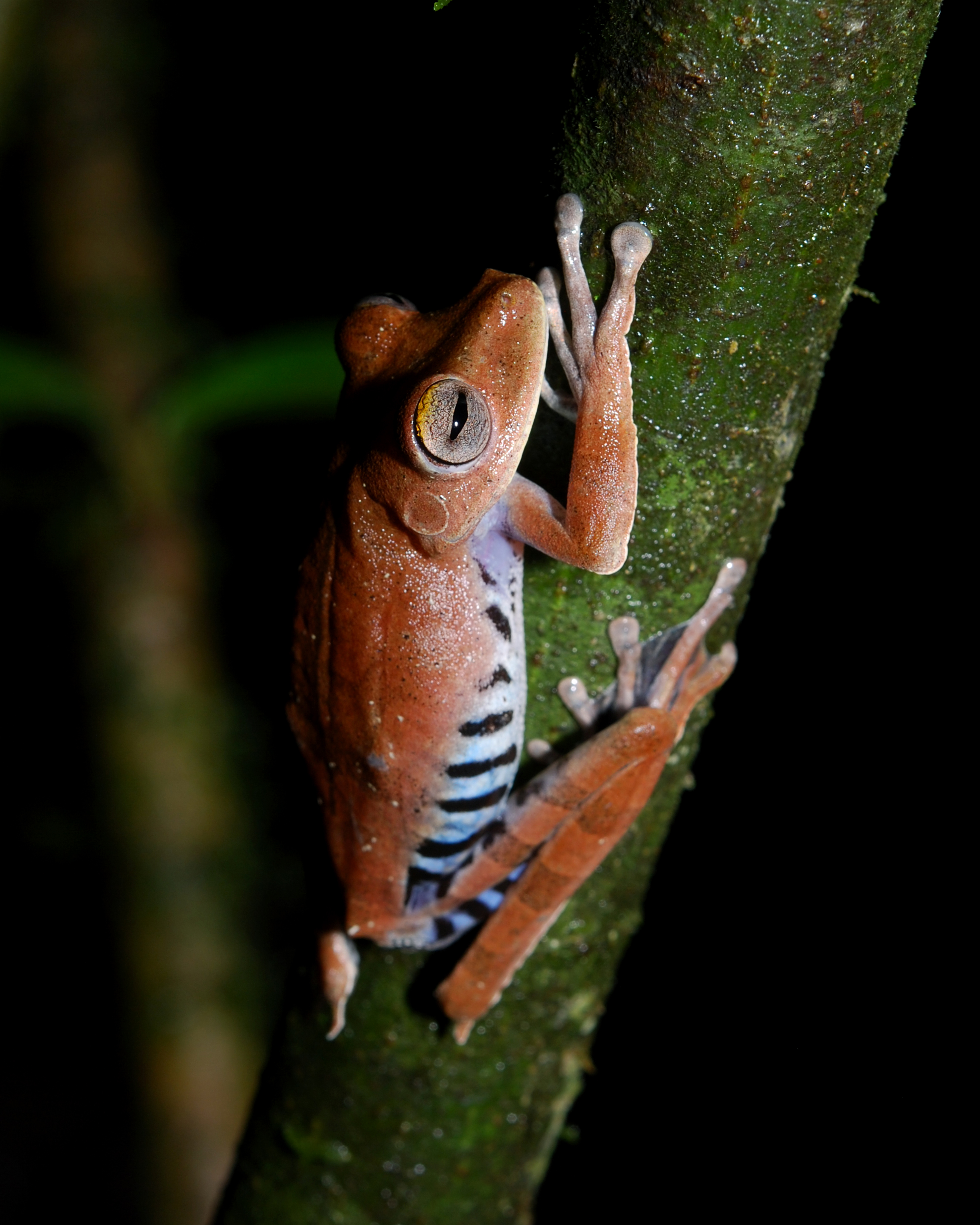 A Convict Treefrog (Hypsiboas calcaratus) at Yasuni National Park, Ecuador.